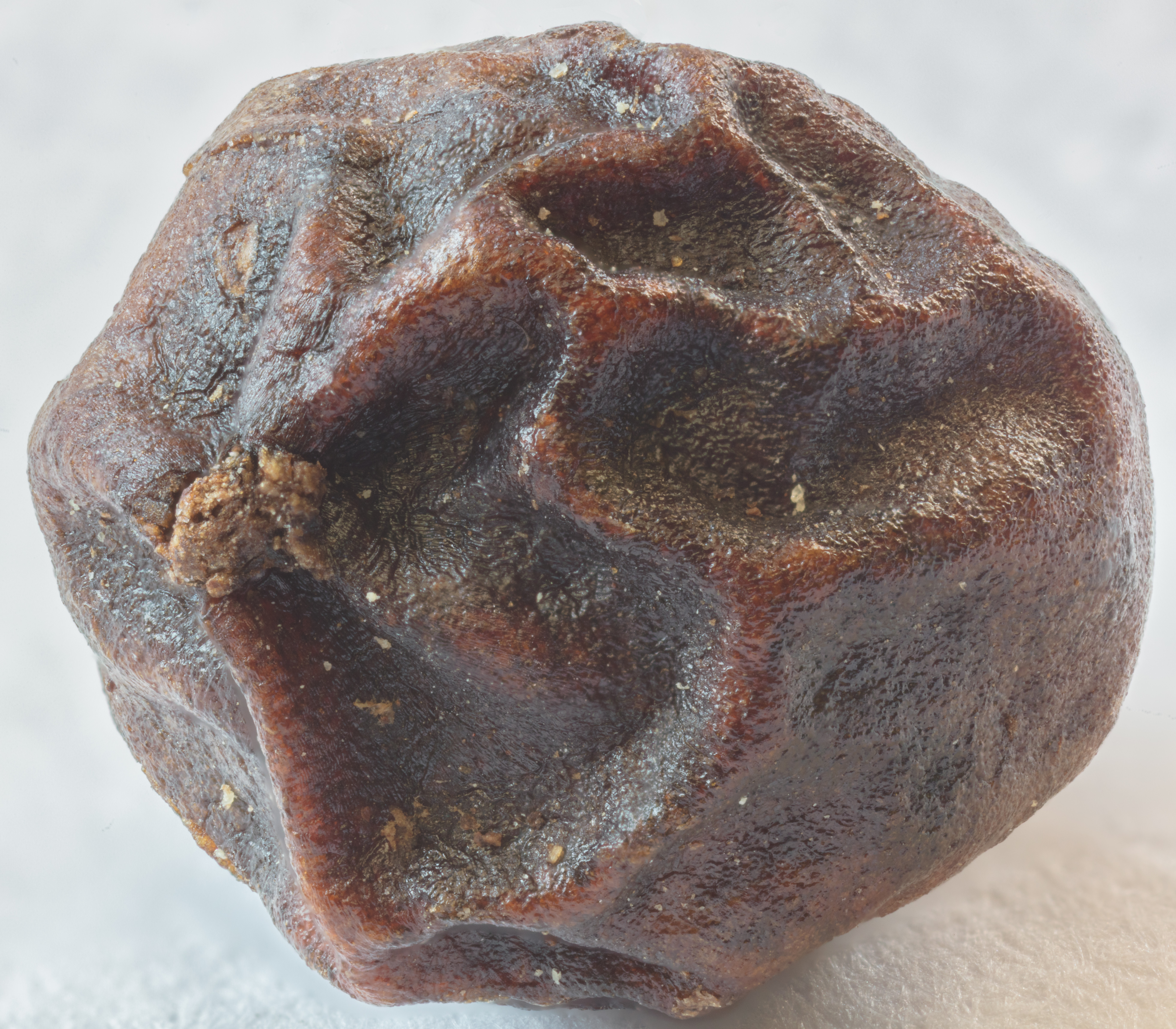 Black pepper (Piper nigrum)